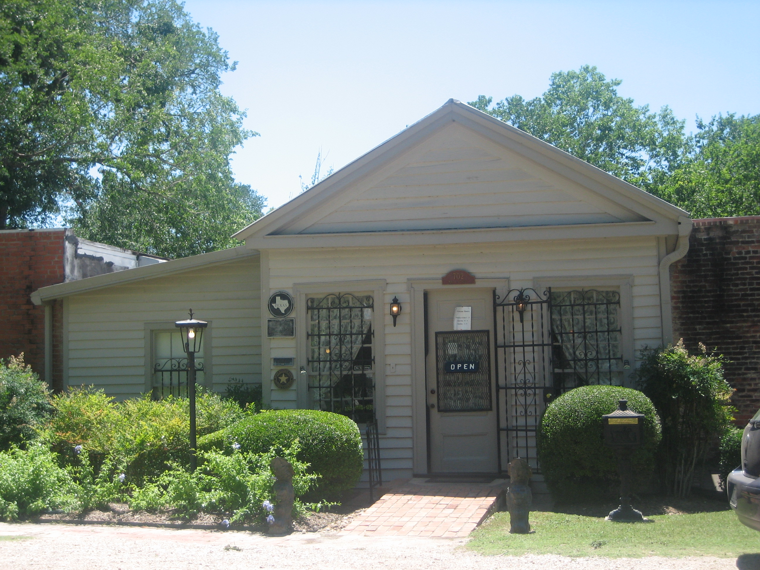 The Cornelson-Fehr House or John Cornelson House in Bastrop, Texas, United States. Designated a Recorded Texas Historic Landmark in 1967 and listed on the National Register of Historic Places on December 22, 1978. I took photo on May 21, 2009.Billy Hathorn (talk) 01:59, 31 May 2009 (UTC)